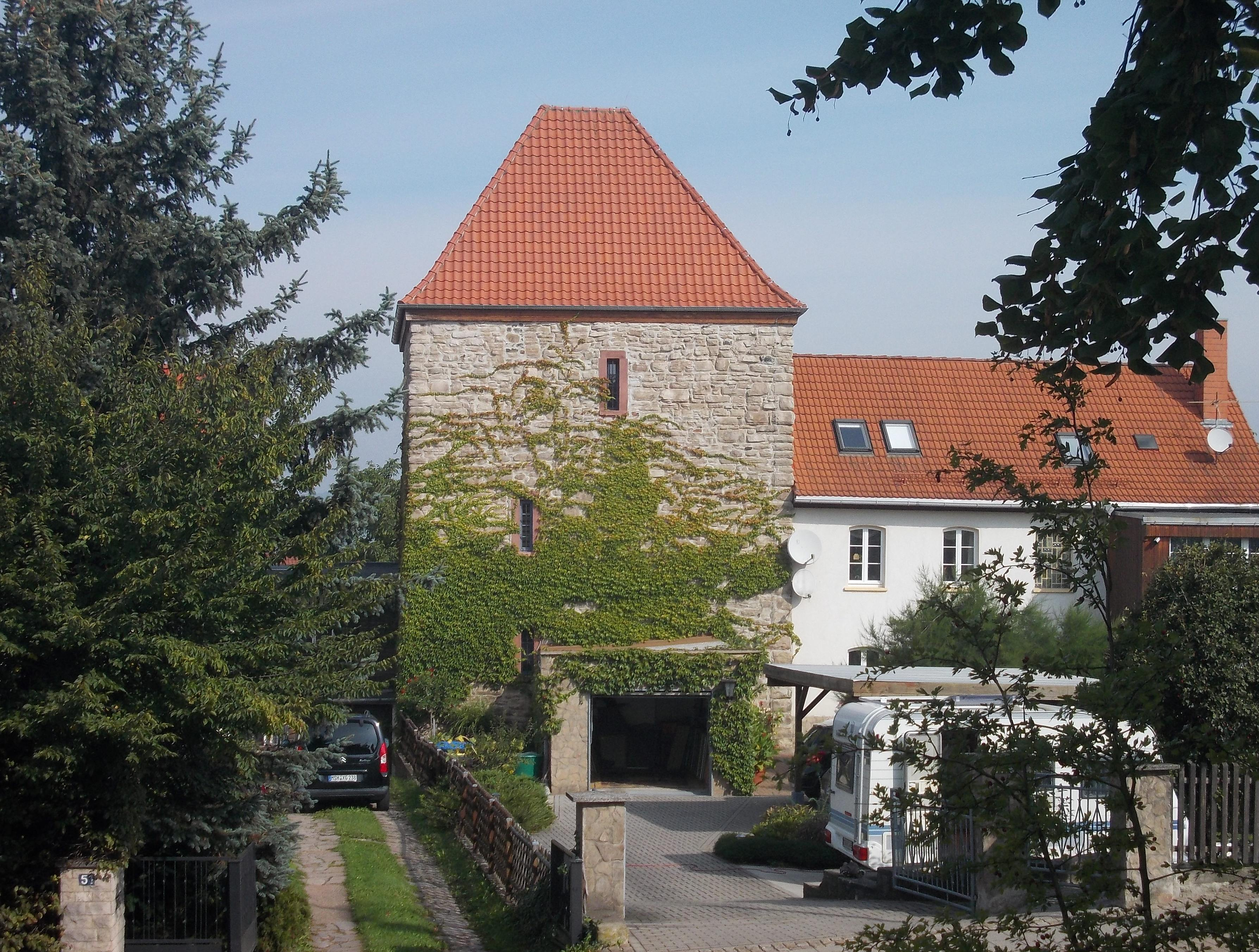 Wall tower in the south of Sangerhausen (Mansfeld-Südharz district, Saxony-Anhalt)